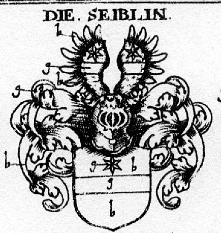 Wappen der Familie Seiblin (Worms und Speyer bzw. Böhl)